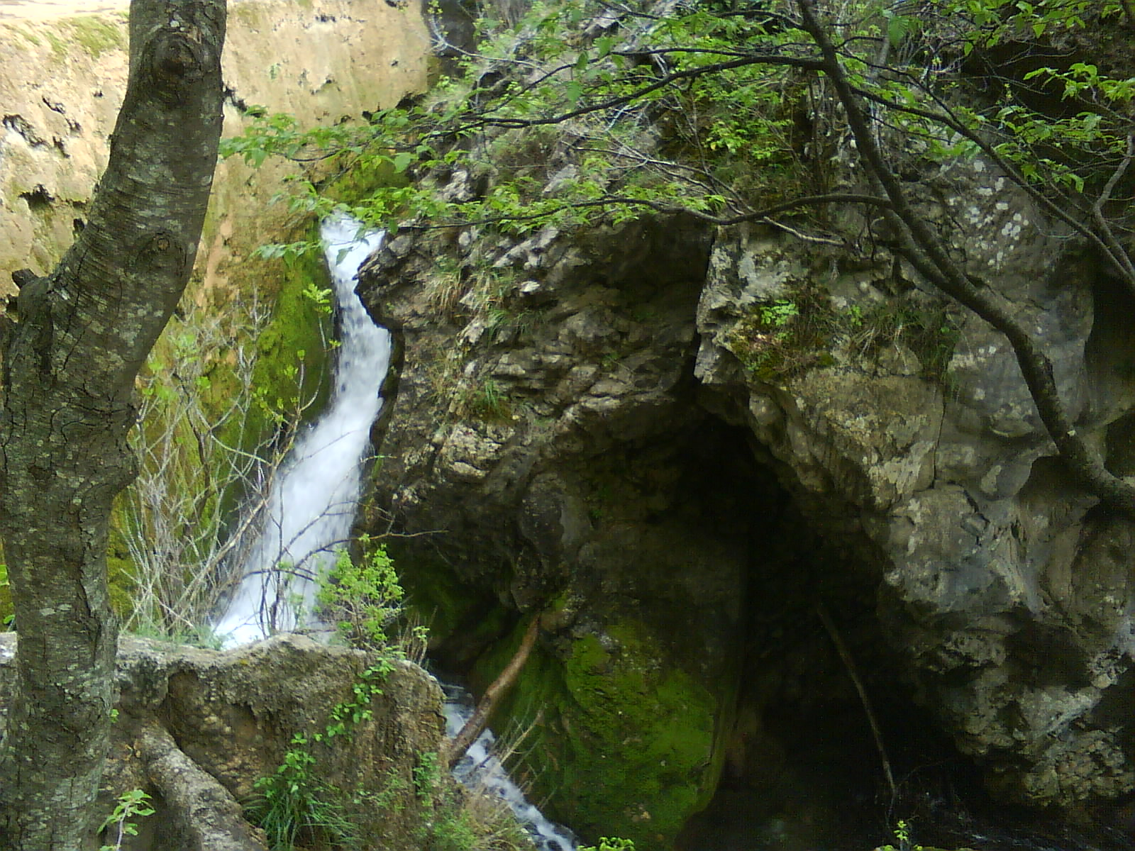 Borak source of river Lištica